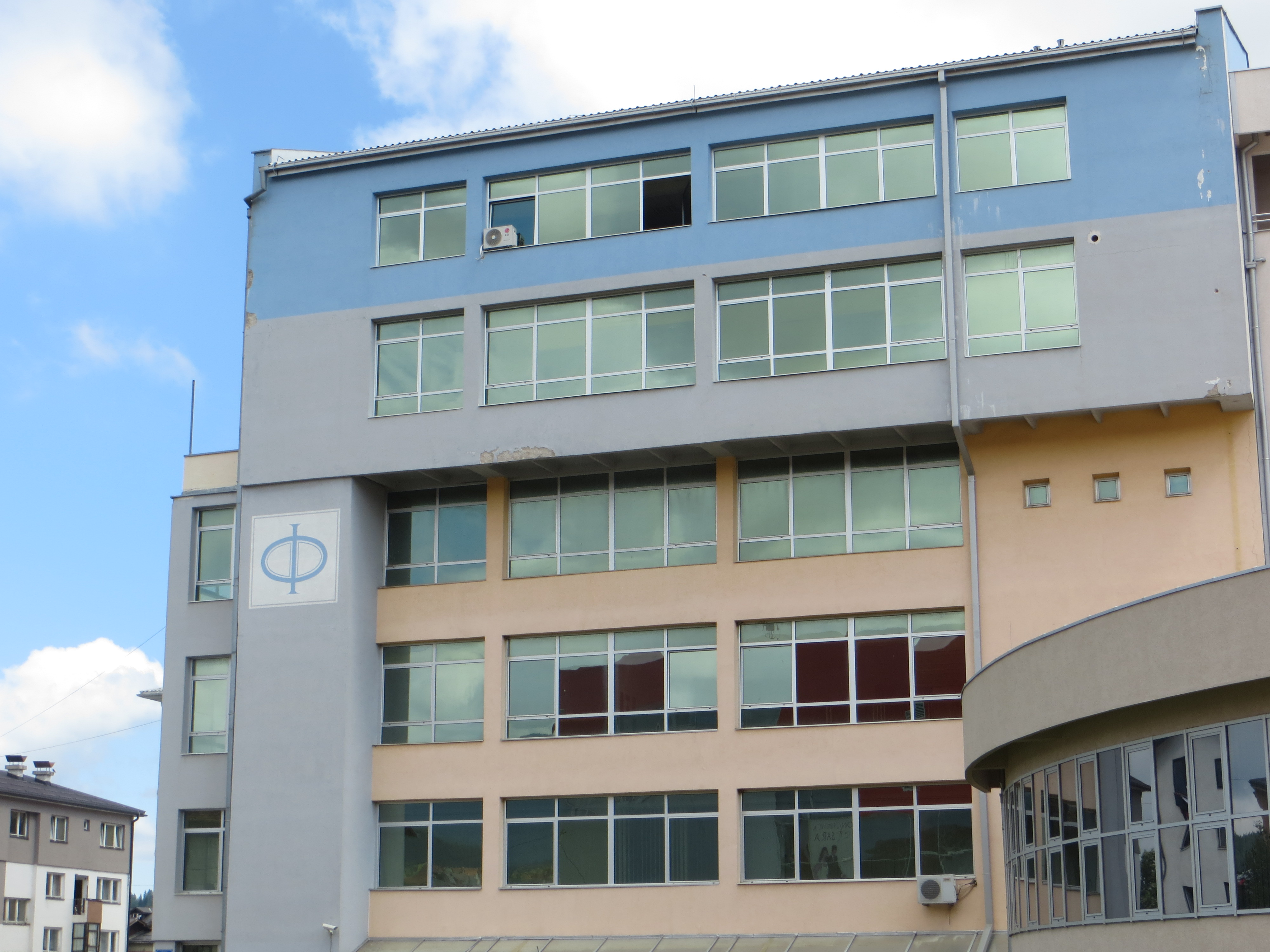 University building, Pale, Republic of Srpska